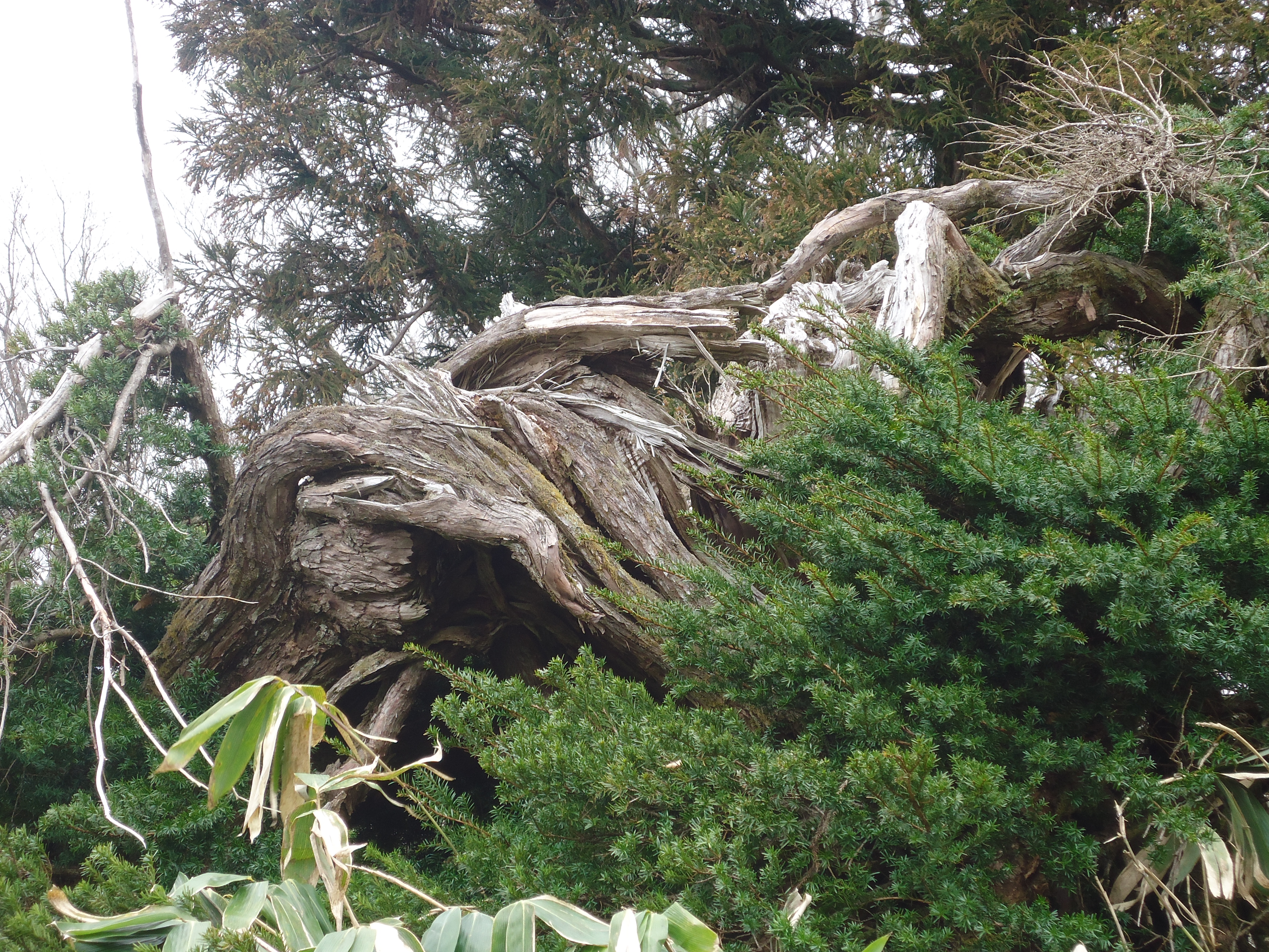 Texus cuspidata of Mt.Sentsuzan